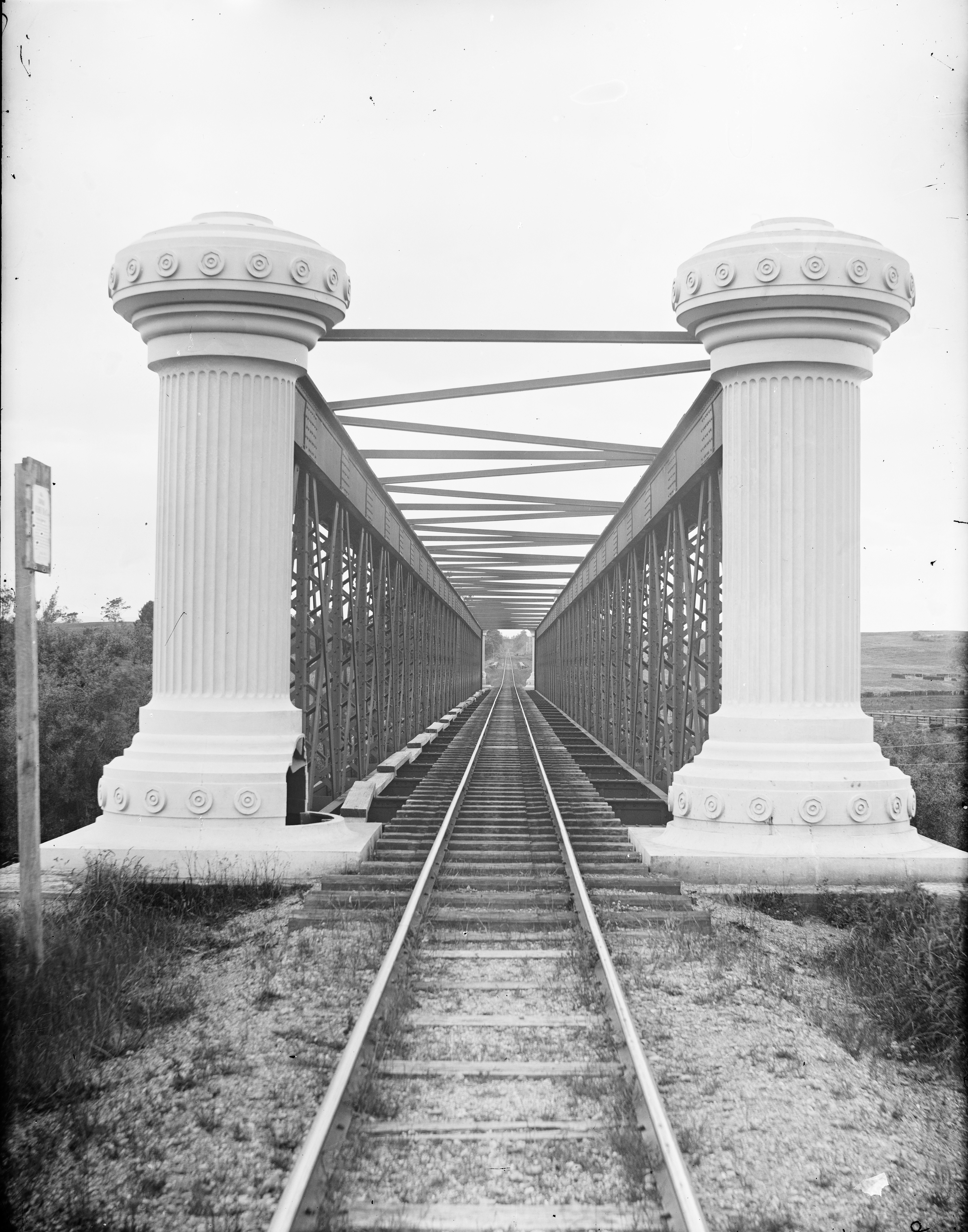 Tasmanian Archive and Heritage Office: NS1013/1/327 Images from the TAHO collection that are part of The Commons have ‘no known copyright restrictions’, which means TAHO is unaware of any current copyright restrictions on these works. This can be because the term of copyright for these works may have expired or that the copyright was held and waived by TAHO. The material may be freely used provided TAHO is acknowledged; however TAHO does not endorse any inappropriate or derogatory use.